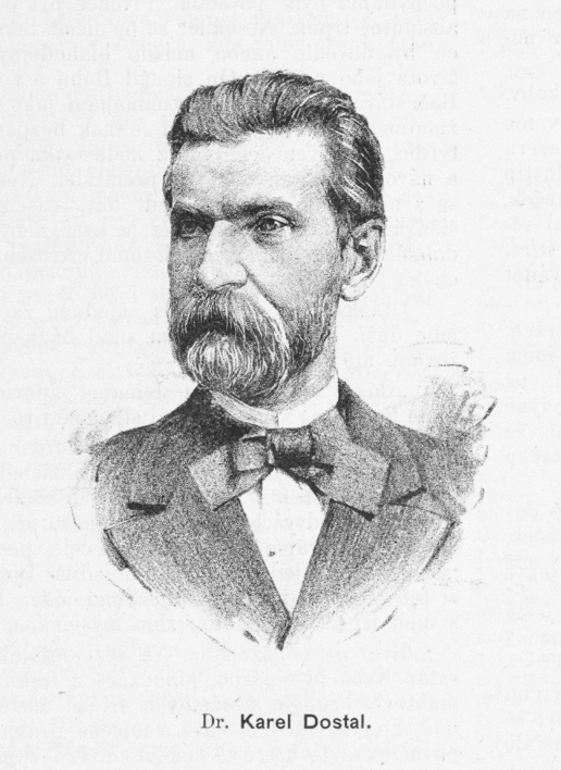 Portrait of Karel Dostál (1834-1918), Czech lawyer and politician.